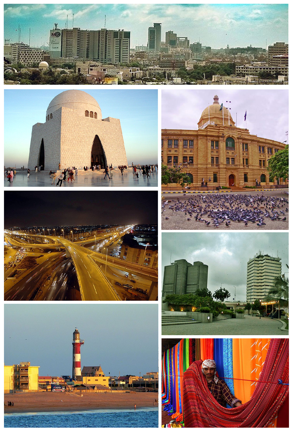 Counter-clockwise from top: File:Karachi sky line.jpg File:KPT HQ.jpg File:PRC Towers and PNSC Building Karachi.jpg File:Karachi - Pakistan-market.jpg File:Manora - Tallest Lighthouse of Pakistan P11008351.jpg File:Nagan Ch Karachi.jpg File:Tomb Jinnah.jpg